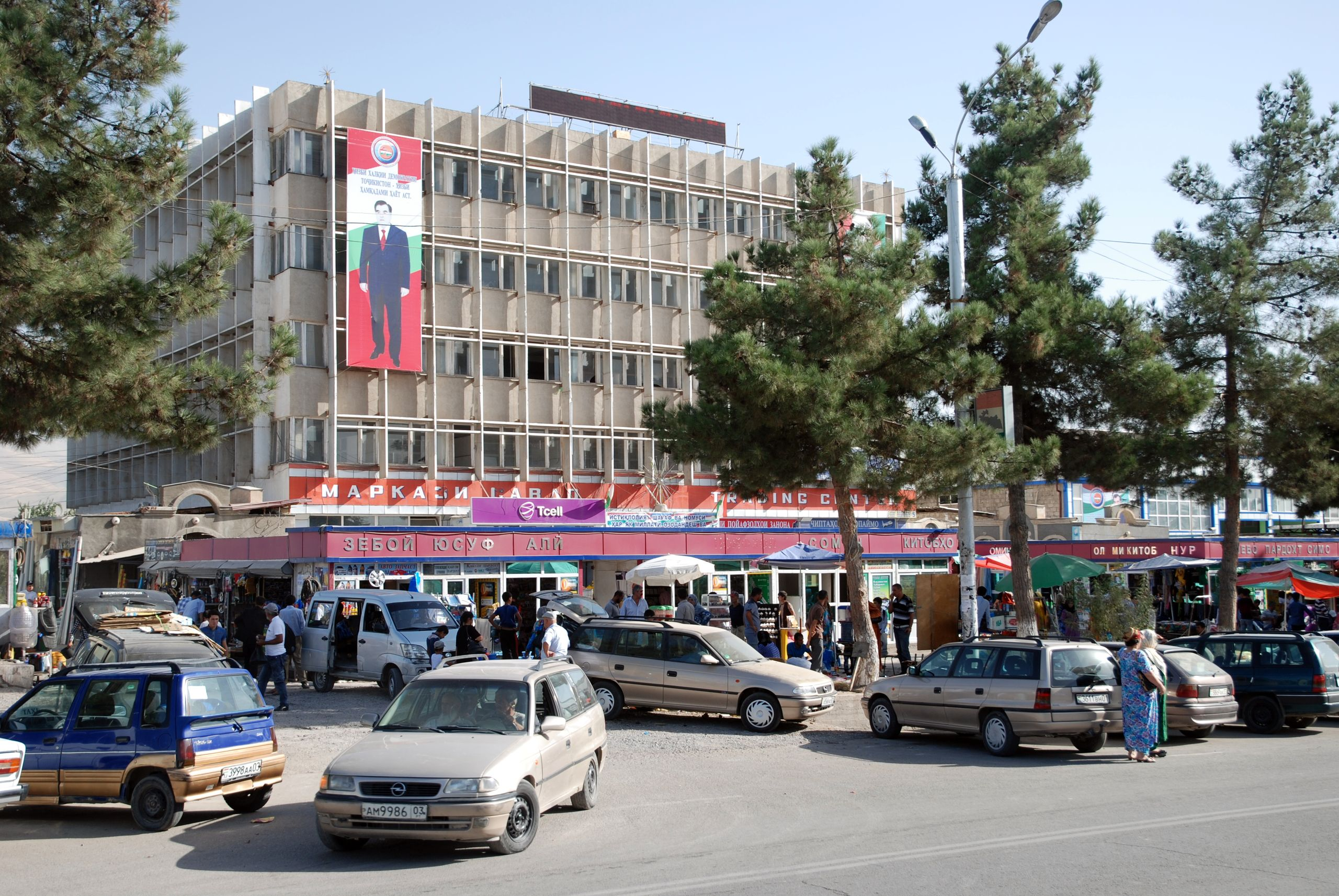 Kulob, Somoni street, town center